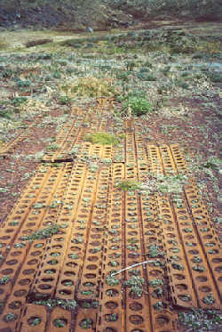 Marsden Matting used for airfield construction during World War II at Alexai Point Landing Field, Attu Island, Alaska.